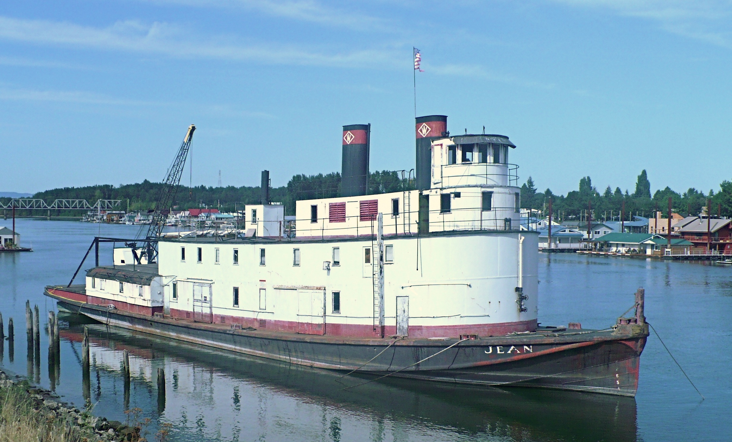 Steam towboat Jean, stripped of paddle wheels and in poor repair, moored in the North Portland Harbor (a distributary of the Columbia River, just south of Hayden Island), at Portland, Oregon, on October 4, 2009.